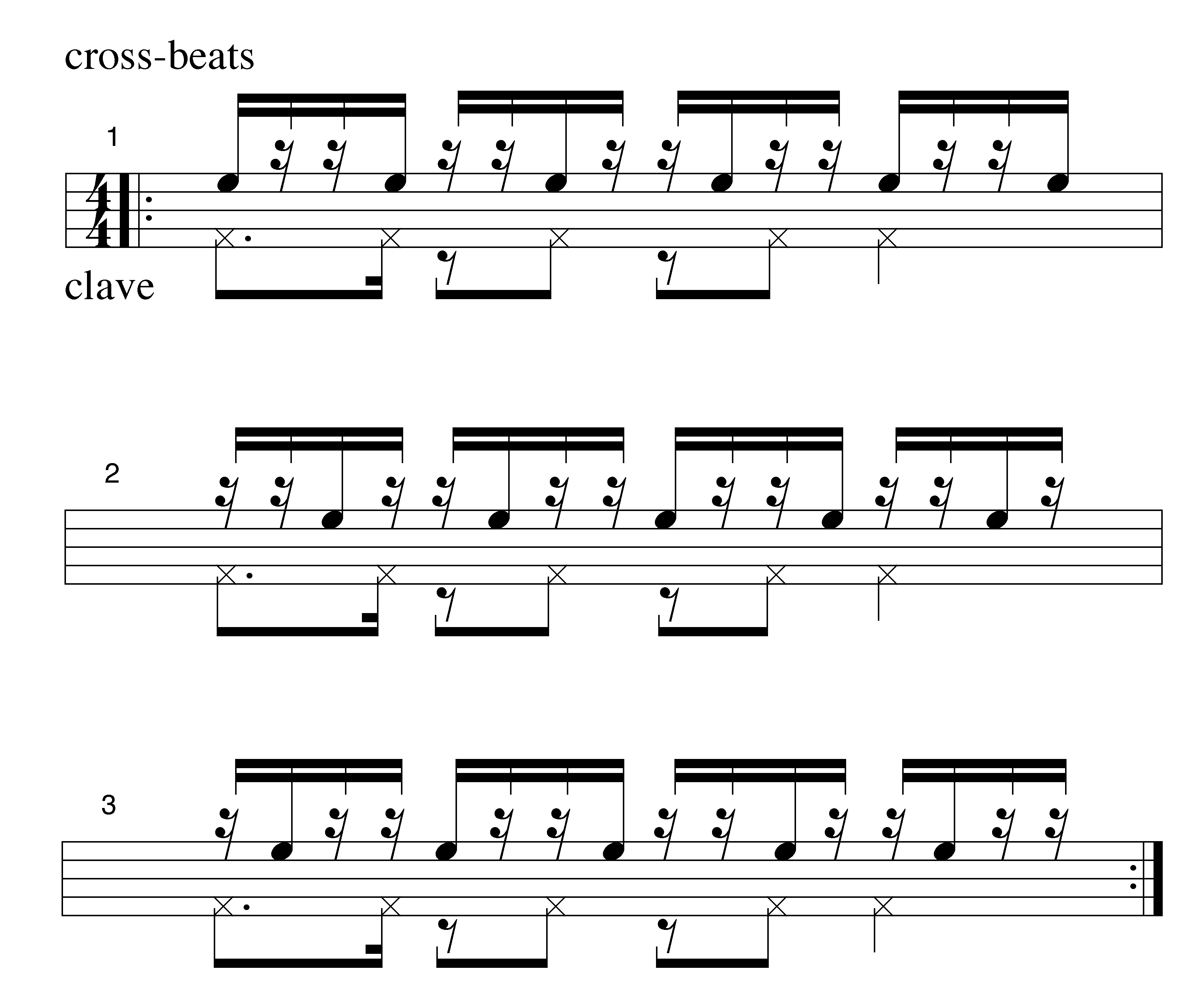 Four modules of 3:4 against three cycles of clave.